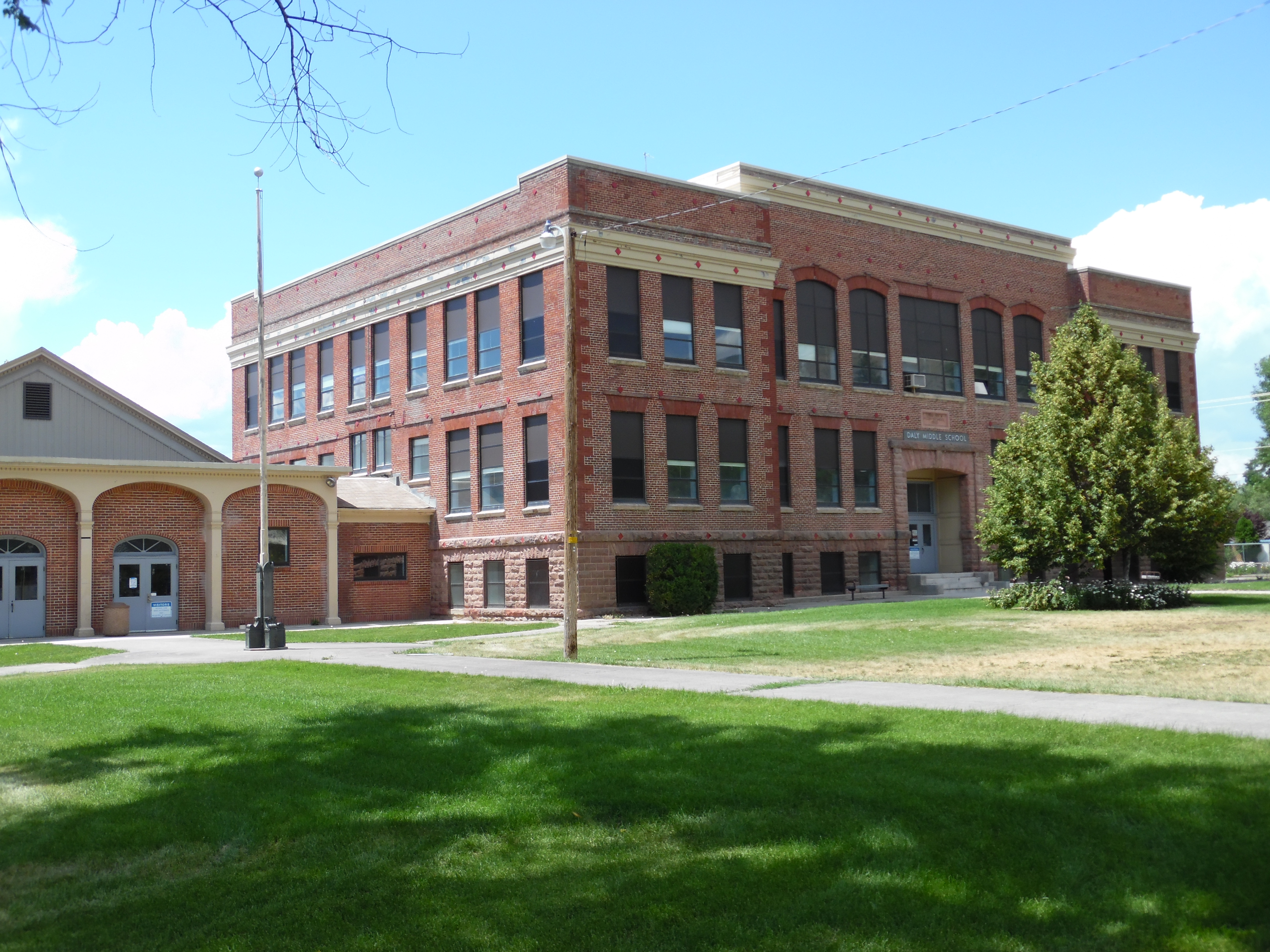 Daly Middle School in Lakeview, Oregon. The school was originally the Lakeview's high school.